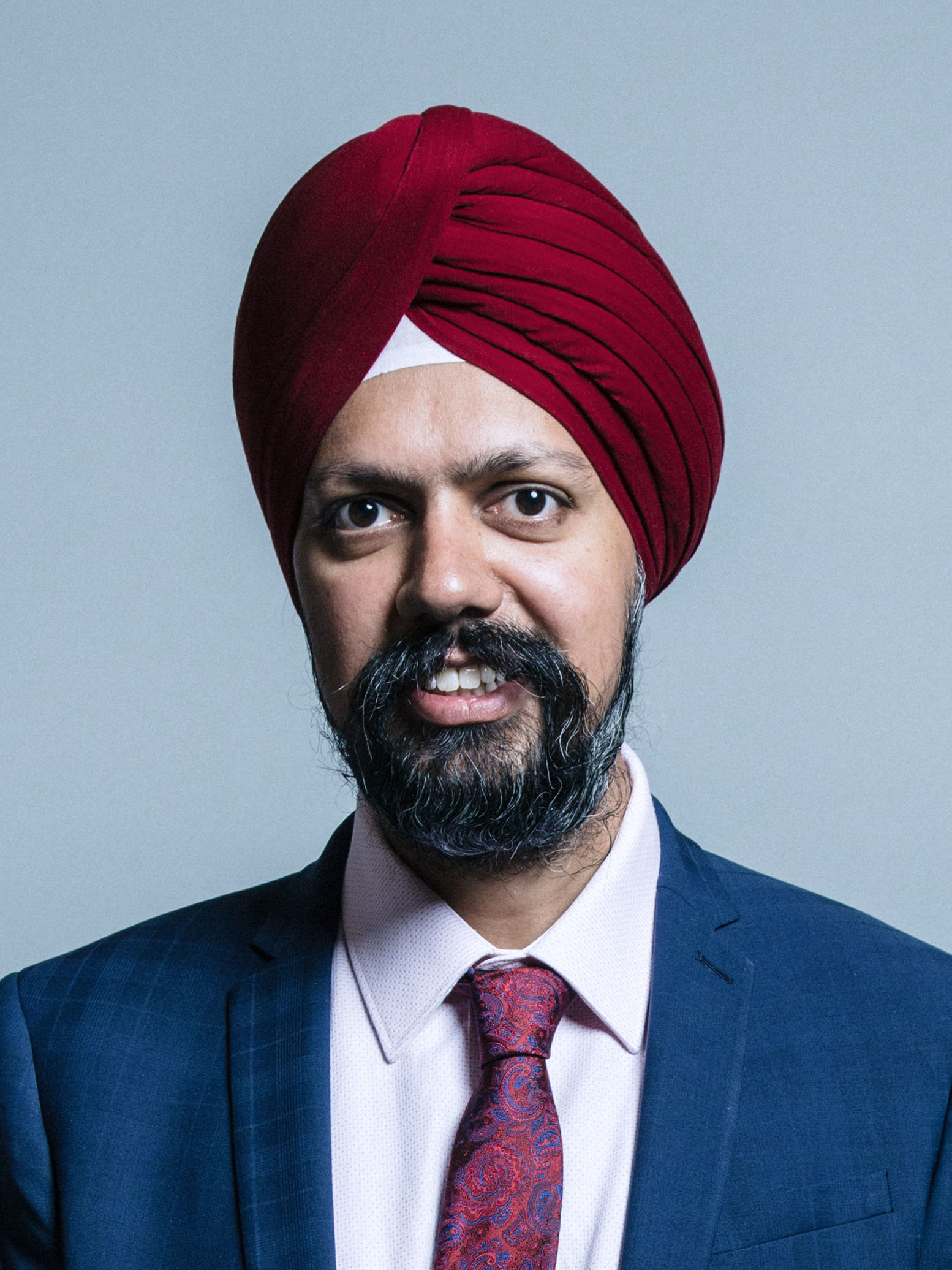 Official portrait of Mr Tanmanjeet Singh Dhesi